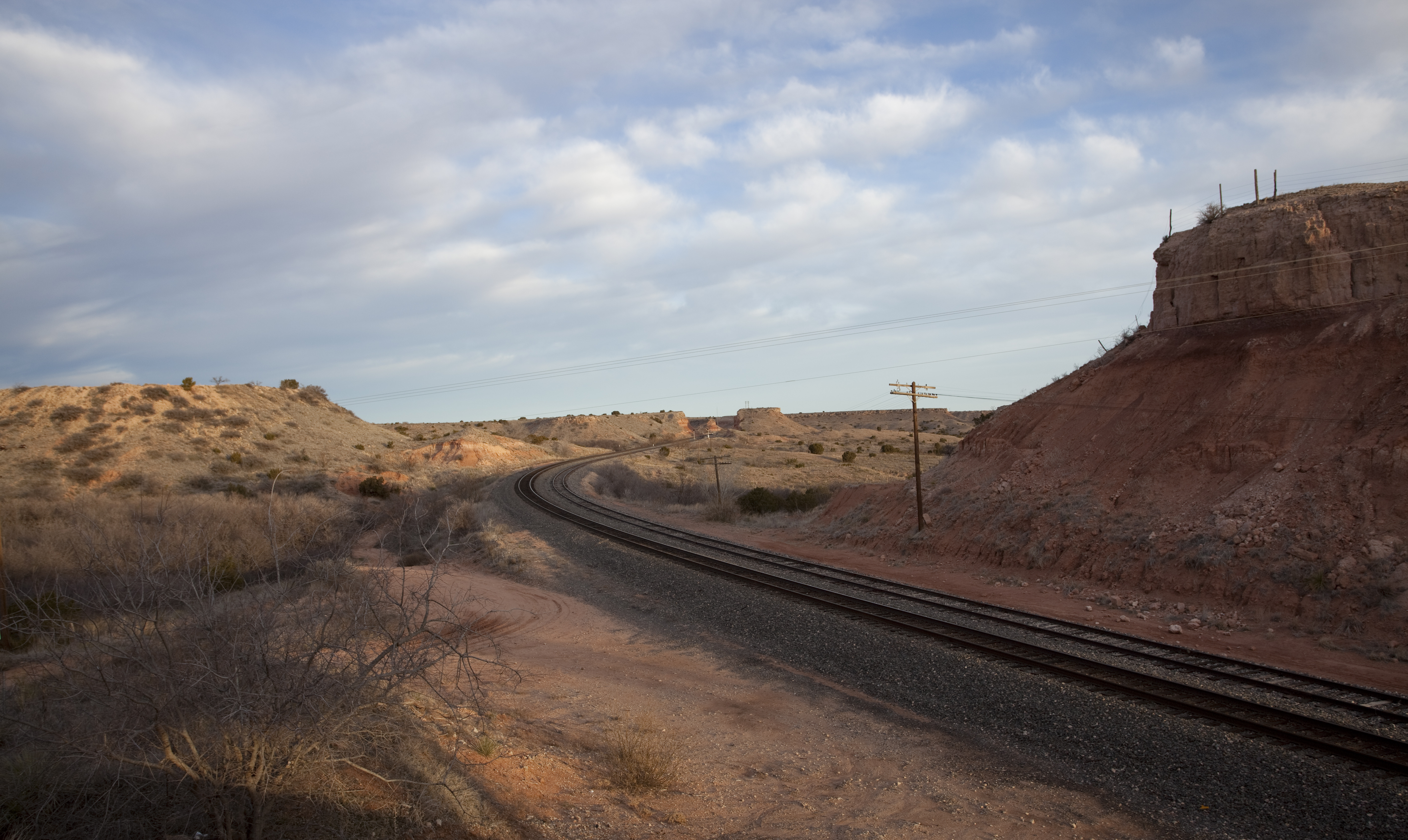 The BNSF Railway climbs the caprock escarpment of the Llano Estacado between Southland and Post, Texas. The proposed route of the Caprock Chief would pass through this part of West Texas.